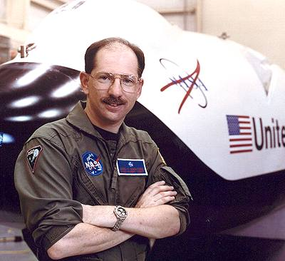 John F. Muratore, Program Manager, X-38/Crew ReturnVehicle For the last seven years John Muratore has been the Program Manager and principal architect of NASA’s X-38 Program which was responsible for building a prototype spacecraft to be used as an emergency return vehicle for the International Space Station. Much of his work on this program gave him the opportunity to fly and conduct flight testing on many types of military aircraft supporting the project.